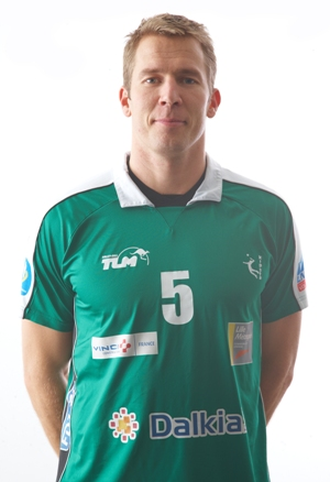 kristian knudsen